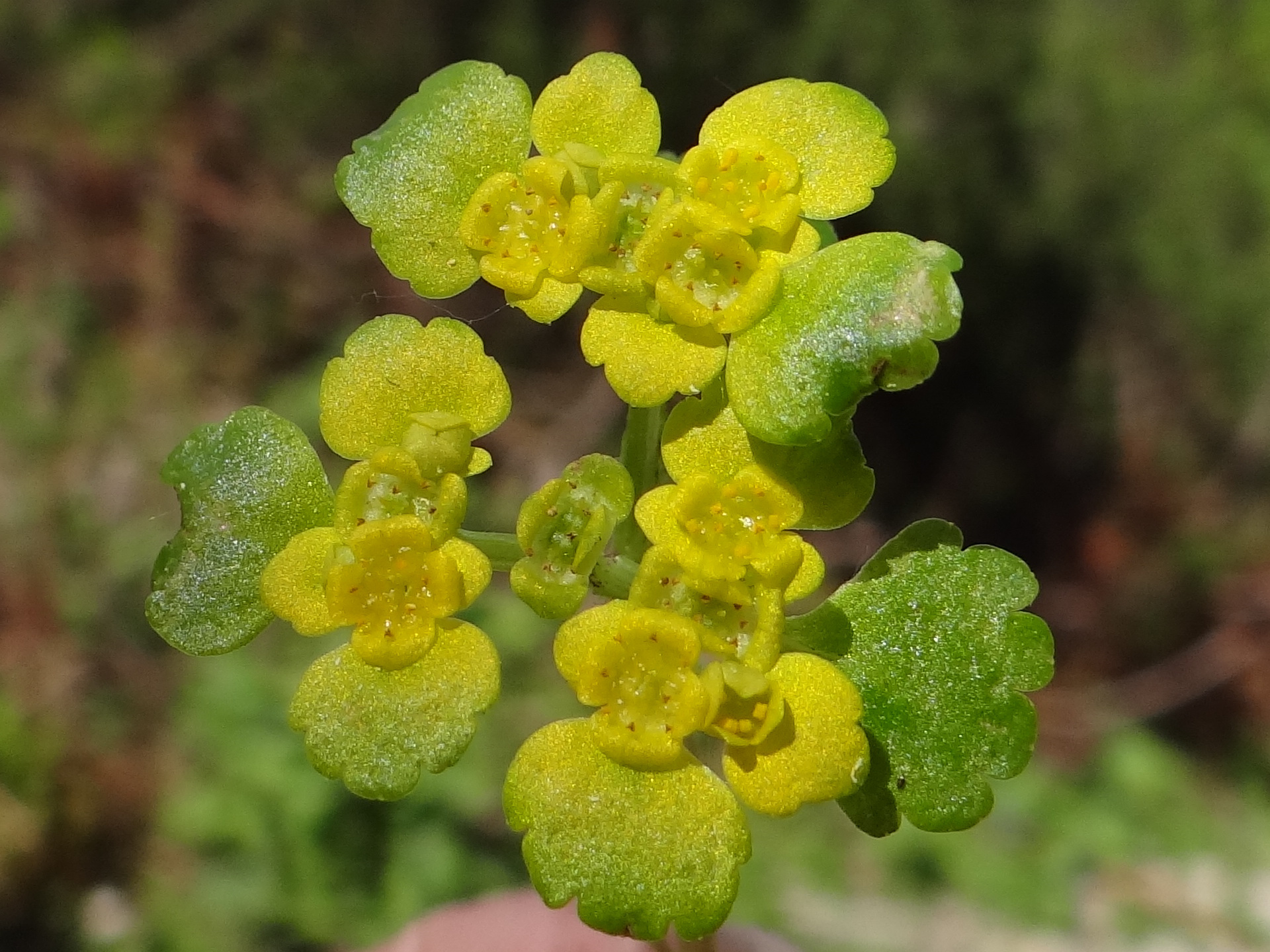 Chrysosplenium alternifolium